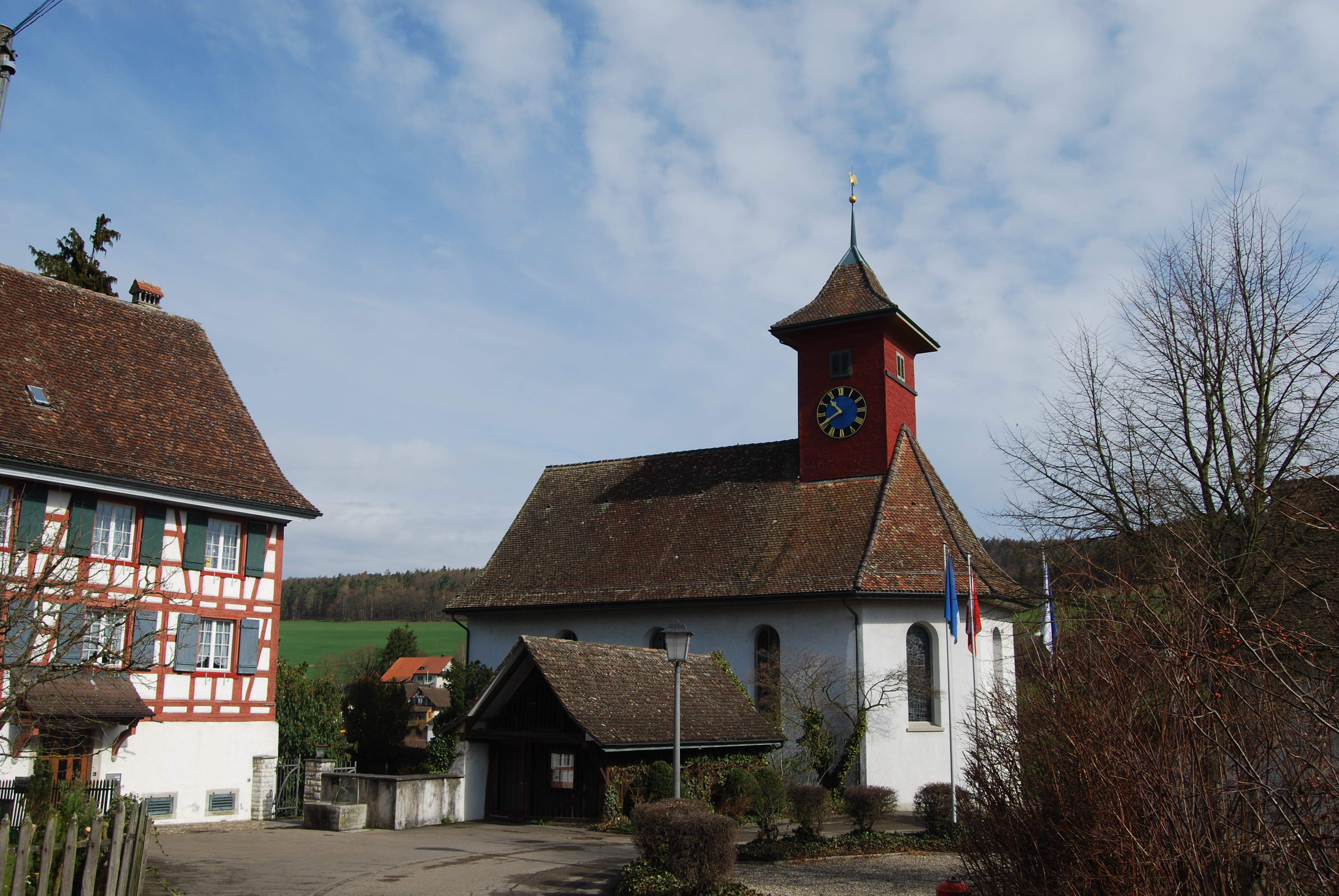 Church of Bachs, canton of Zürich, SwitzerlandEsperanto: Preĝejo de Bachs, Kantono Zuriko, Svislando